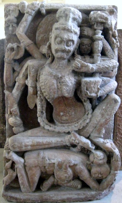 Chamunda British Museum Orissa, 8th - 9th century AD. India.